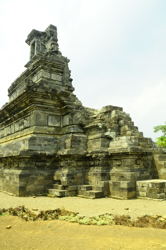 Candi Rimbi, Bareng, Jombang, Jawa Timur.